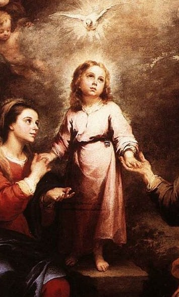 Child Jesus (detail) in two Trinities by Bartolomé Esteban Perez Murillo